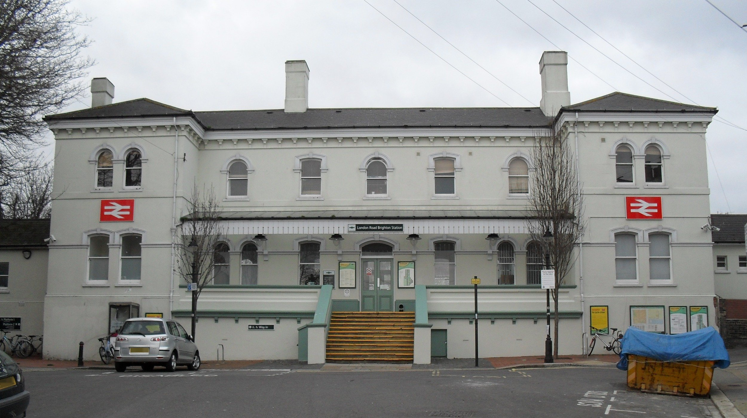 London Road railway station, Shaftesbury Place, Brighton, City of Brighton and Hove, England. A station on the East Coastway route, opened in 1877. This building is original.